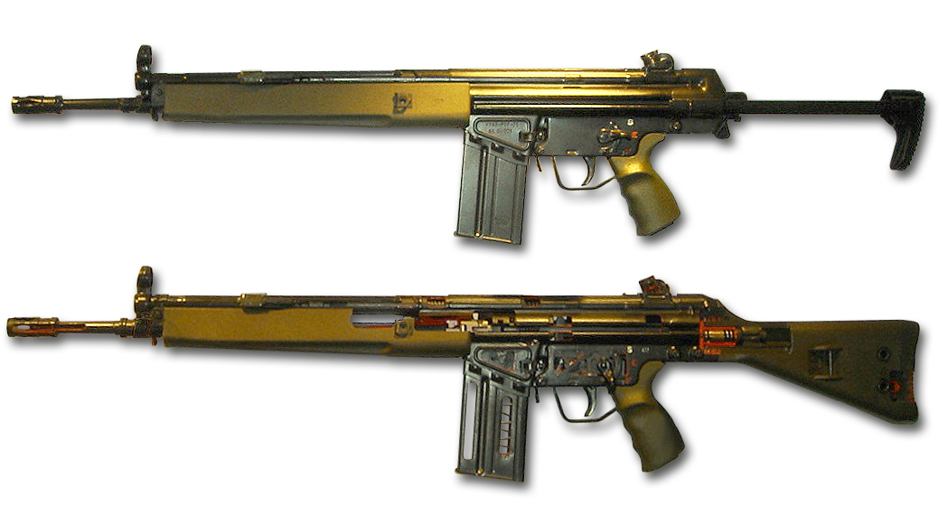 H&K G3 rifles. The lower rifle has been sectioned (to show internal parts) for instructional purposes. Fixed stock and retractable stock versions of the H&K G" rifle Edmond HUET, DCB Shooting, Quickload June, 19th, 2008 Author=Edmond HUET